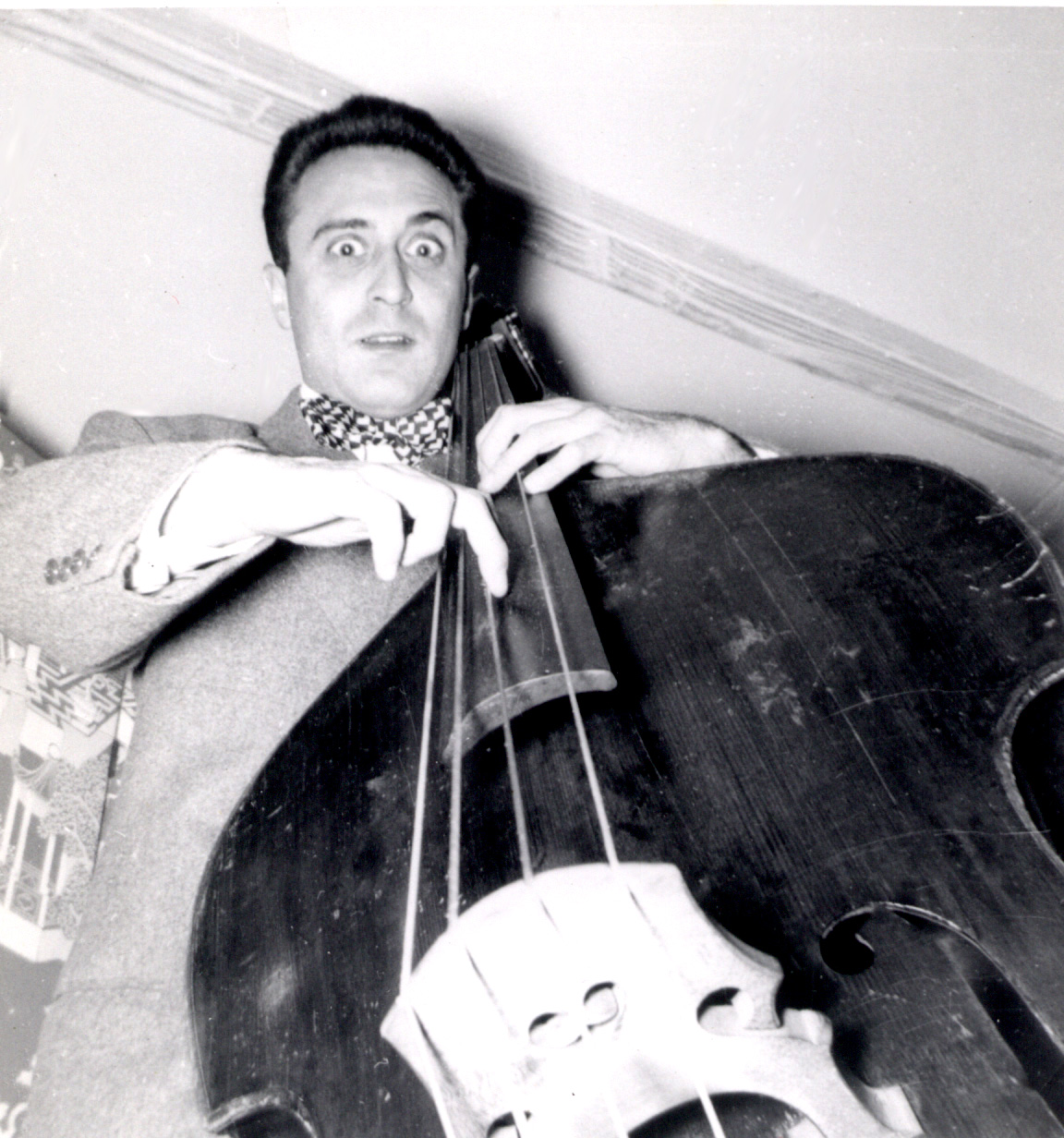 Arnold and his Bass Violin in Levittown NY 1949